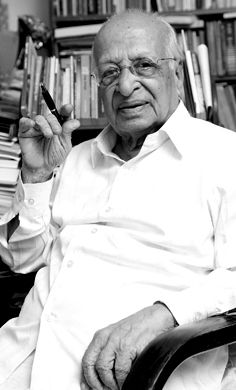 Prof G. Venkatasubbaiah in his library